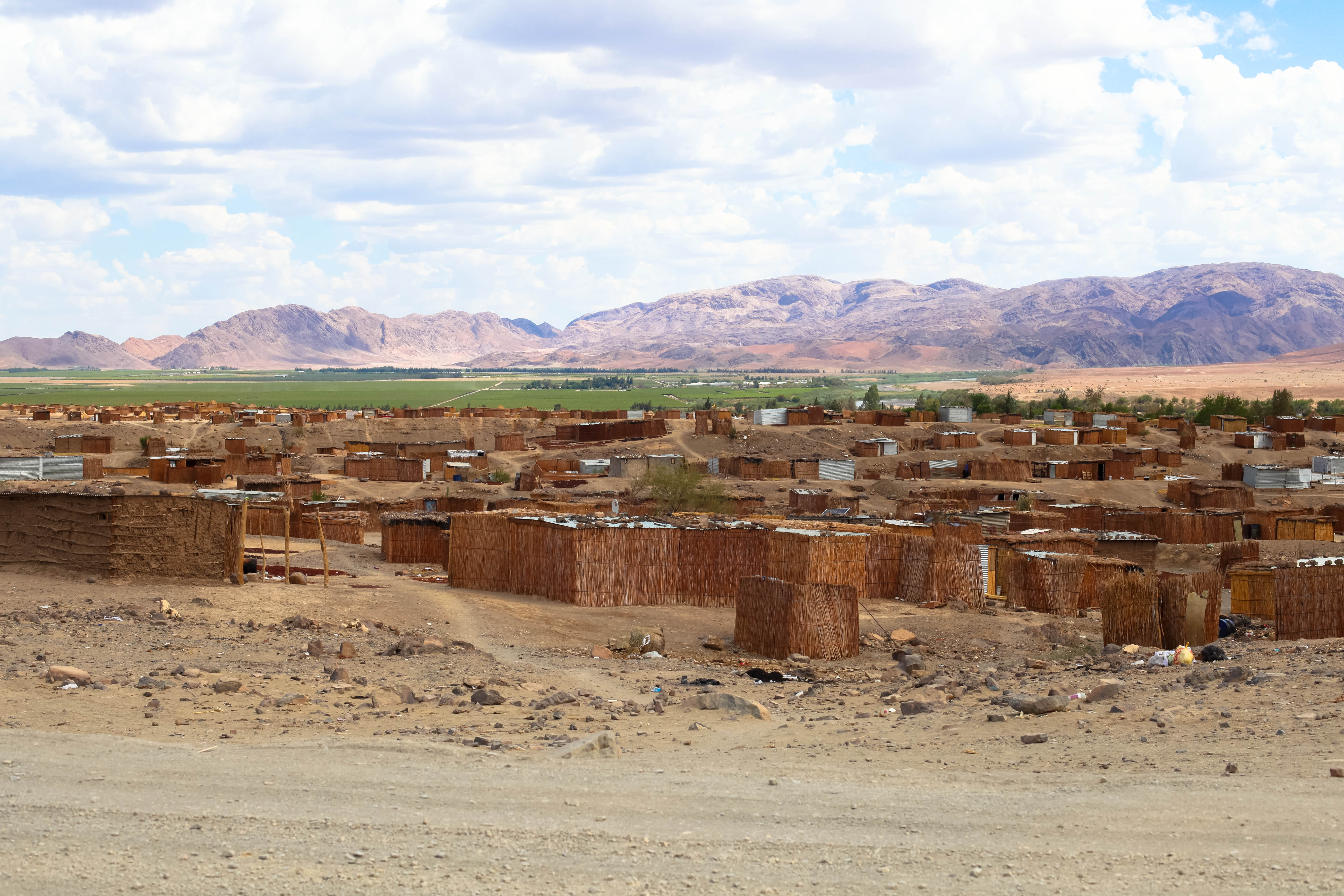 Huts of farm workers overlooking the giant wine fields of Aussenkehr Namibia